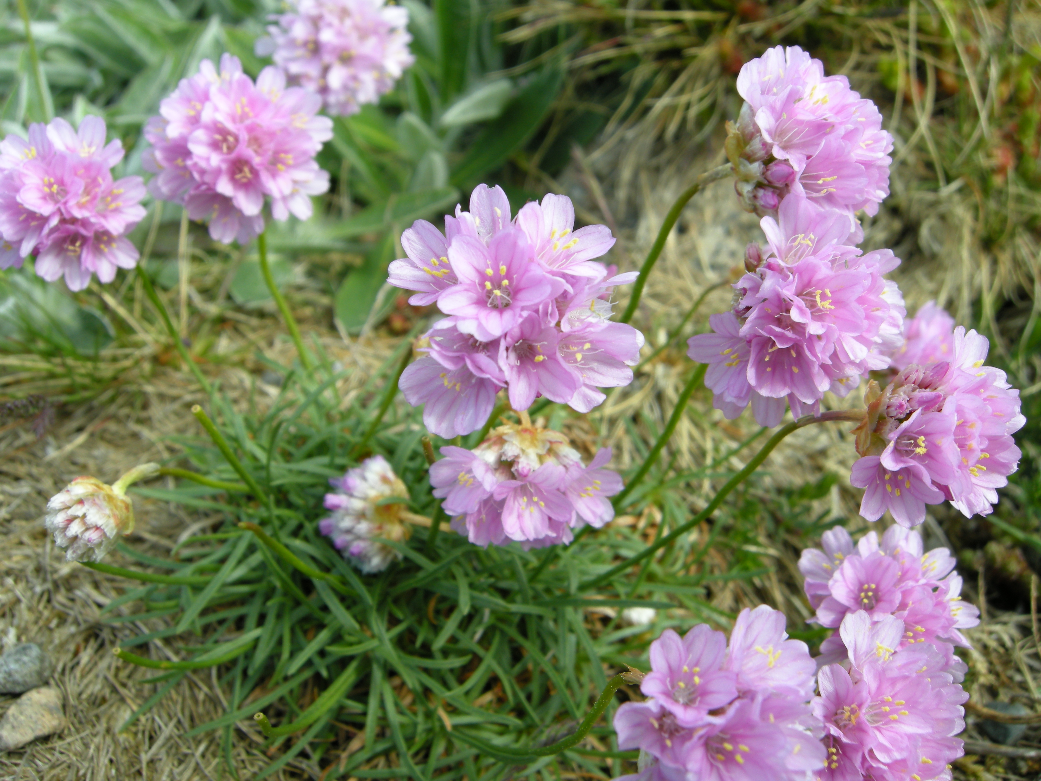 Marsh Daisy - Armeria maritima - Larvik, Norway